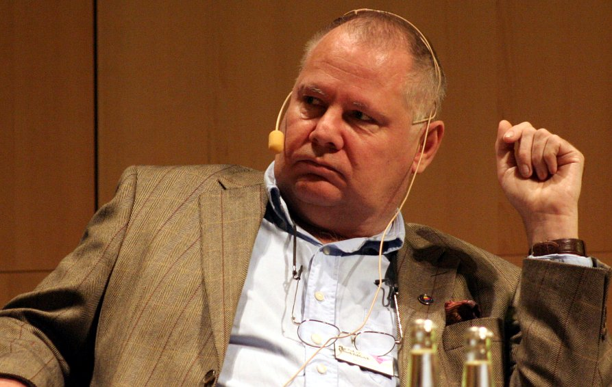 Author, translator and critic Mats Gellerfelt at the Gothenburg bookfair 2008.